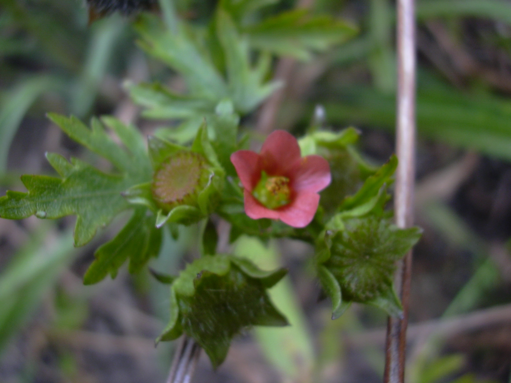 Modiola caroliniana (flowers). Location: Hawaii, Puu Kole